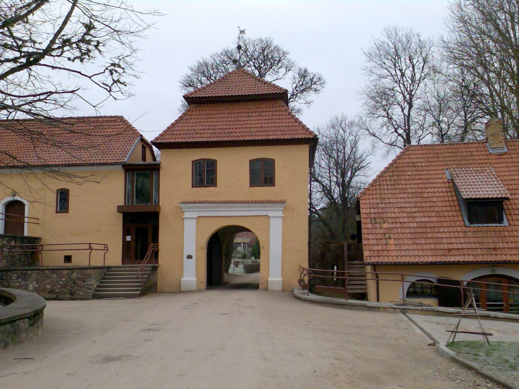 Šlokenbeka Castle